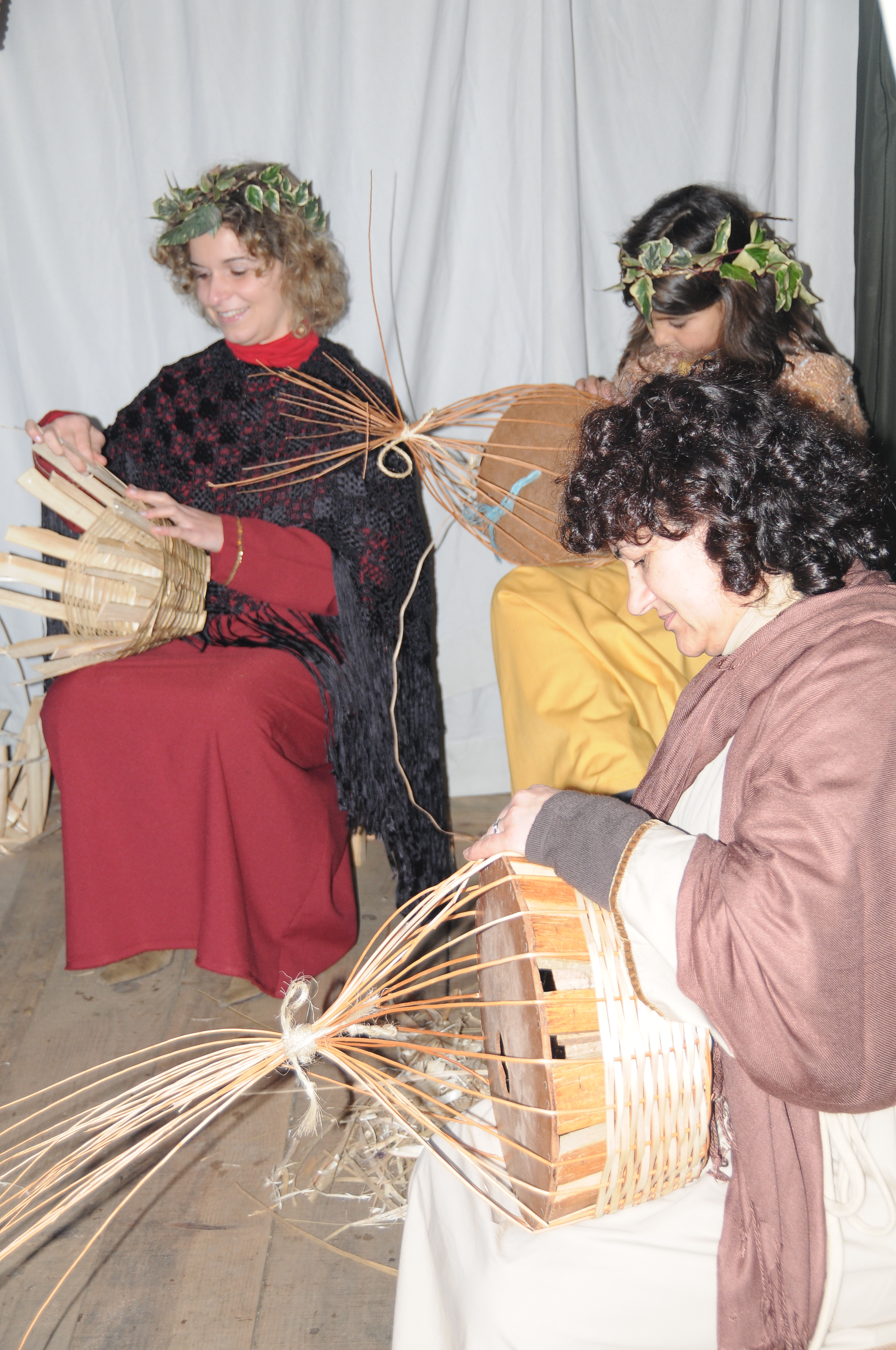 Basket making in Priscos, Braga, Portugal